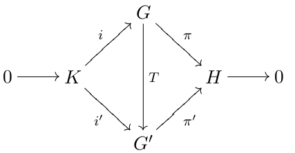 an diagram